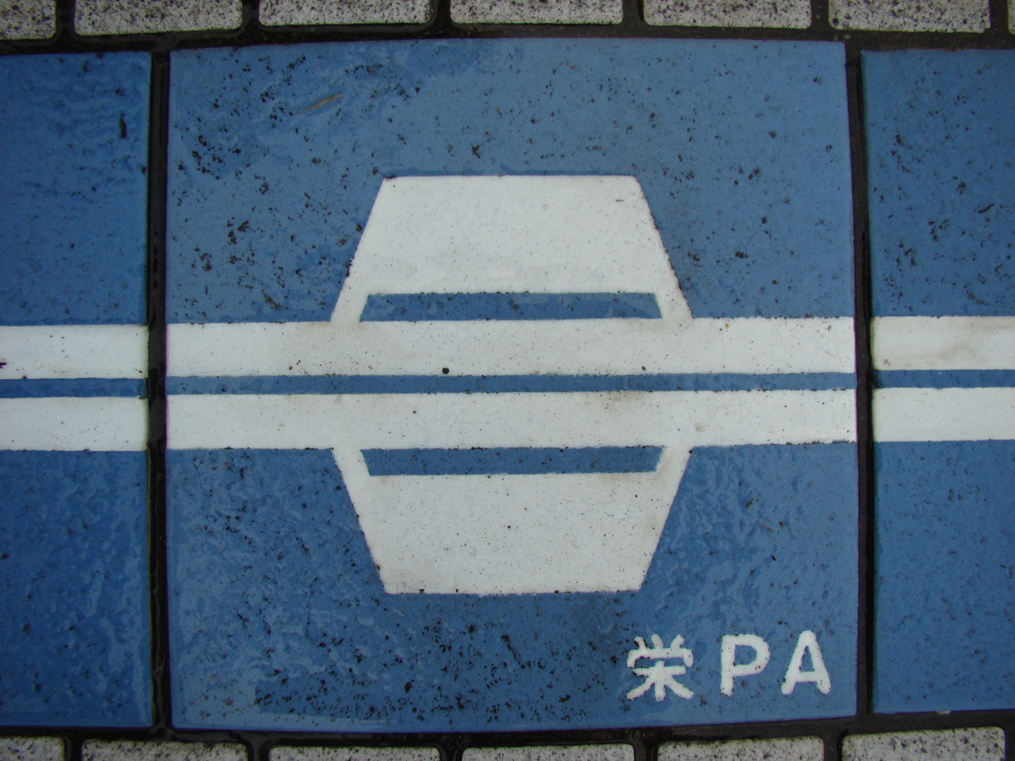 The tile which designed a shape of the Sakae Parking Area（Hokuriku Expressway）（There is this tile in Hokuriku Expressway Nadachi-Tanihama Service Area.）. Place - Chayagahara,Joetsu City,Niigata Prefecture,Japan Date - August 9, 2009 Format - JPEG, 3264x2448pixel, 24bit colors. Photographer - NALA Wiki (talk)